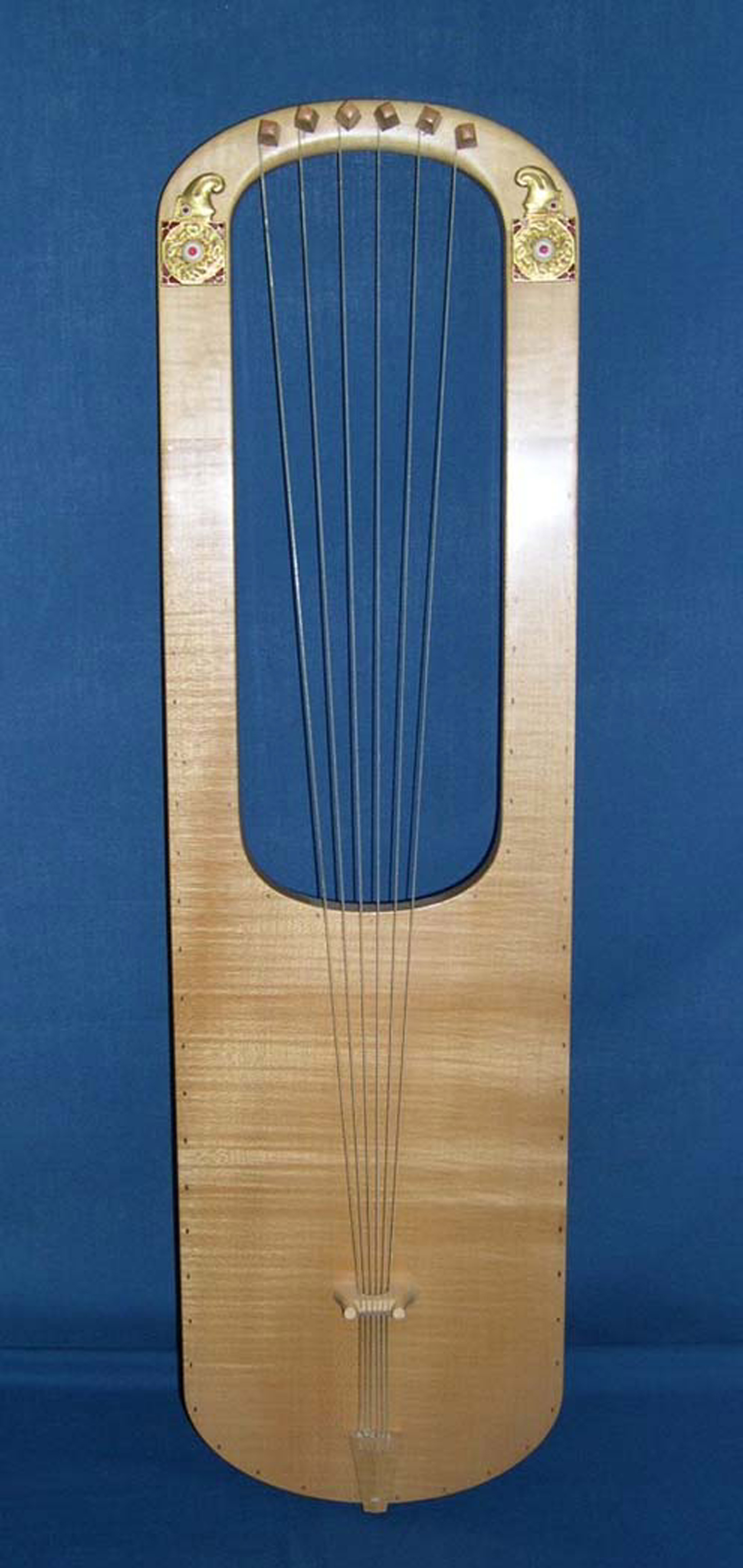 Reconstruction of the lyre from the Sutton Hoo ship-burial 1, Suffolk (England). Lyre reconstruction by Messrs Dolmetsch. Photograph by Steven J. Plunkett